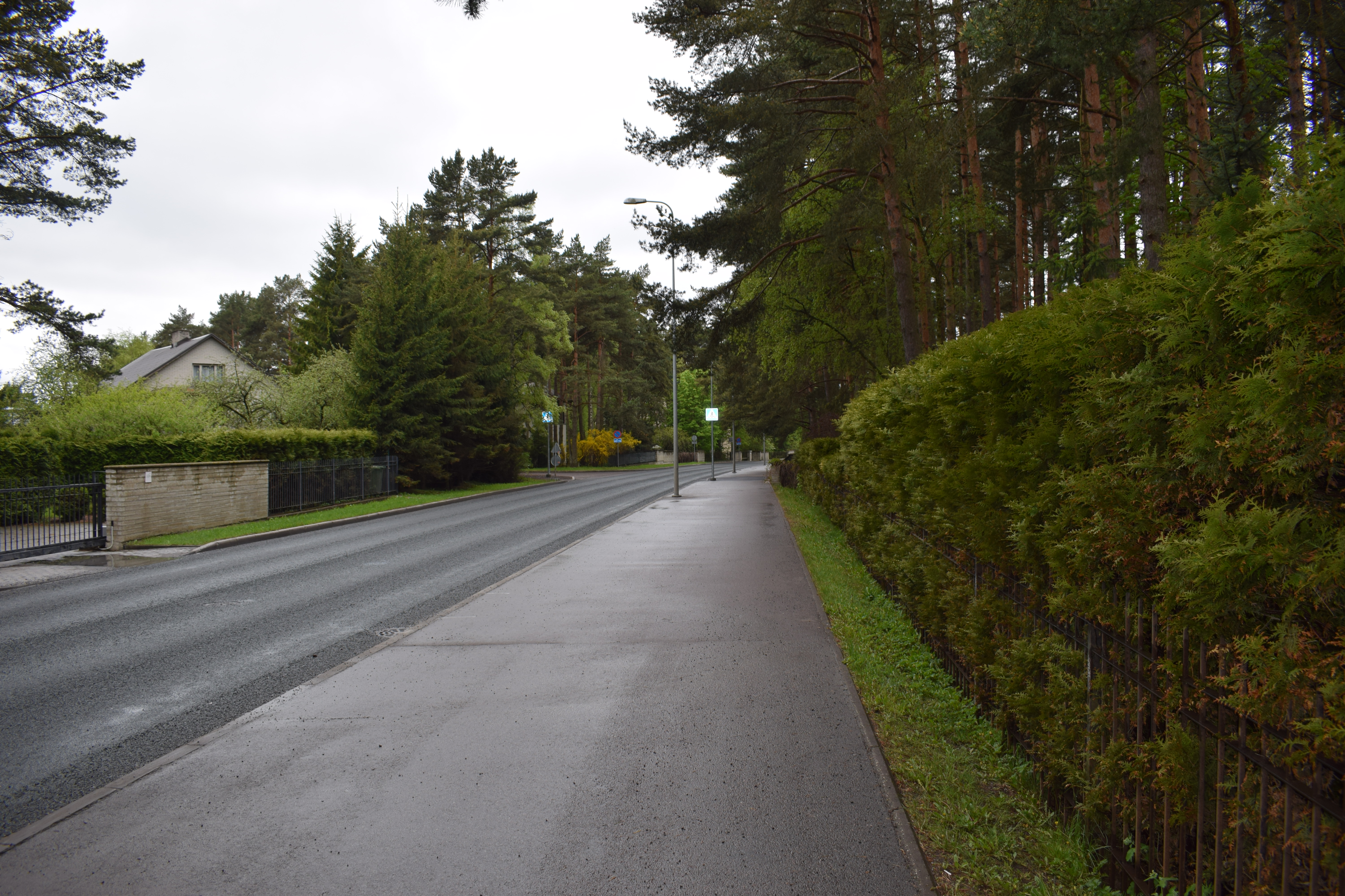 Randvere road